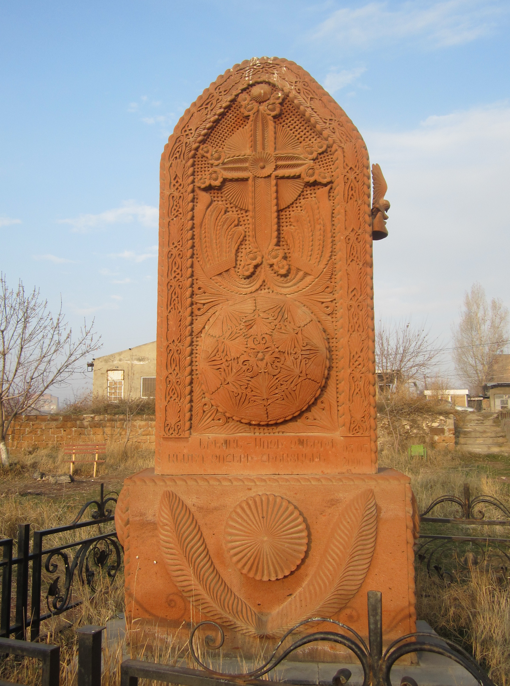 Stone cross monument dedicated to the victims of aircraft crash of Flight 967 (05.03.2006) in Yerevan.